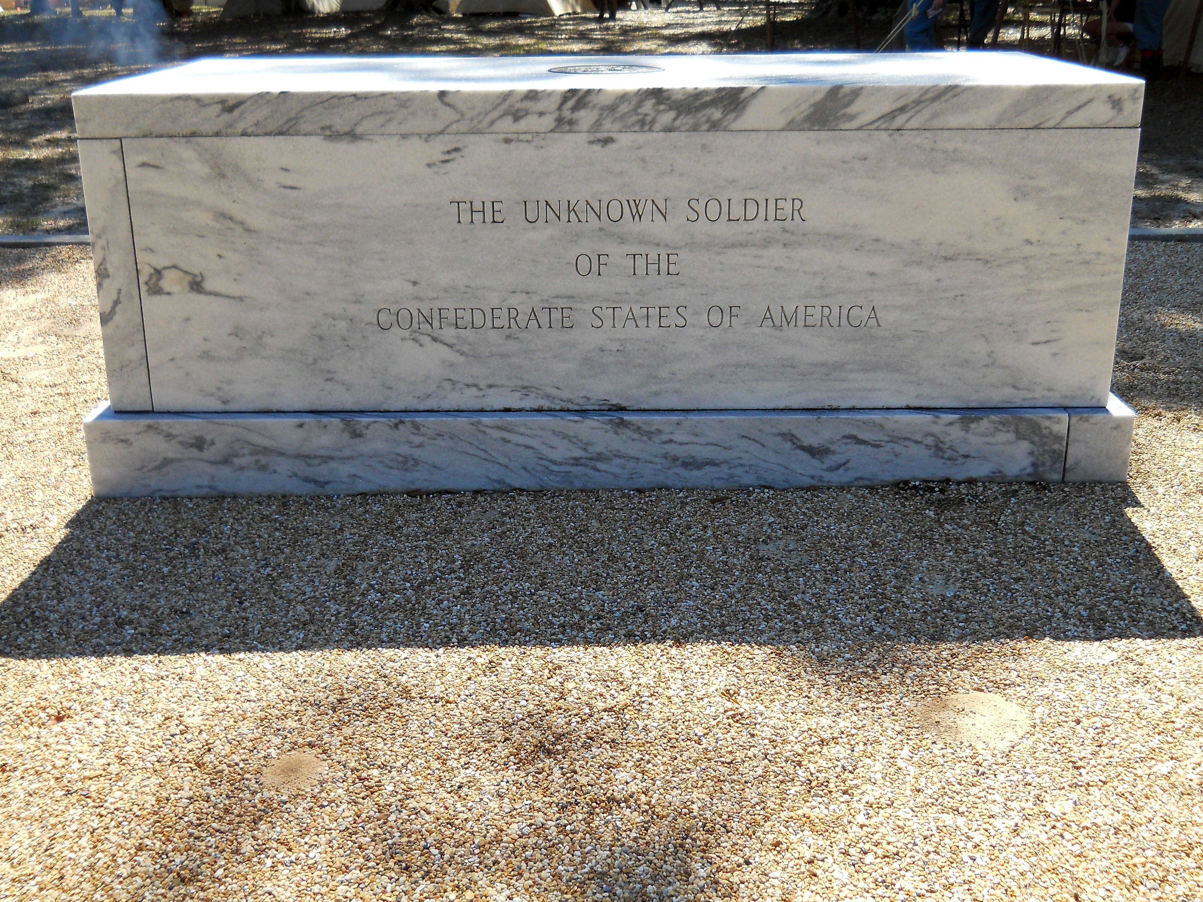 Tomb of the Unknown Confederate Soldier on the grounds of Beauvoir in Biloxi, Harrison County, Mississippi, USA.